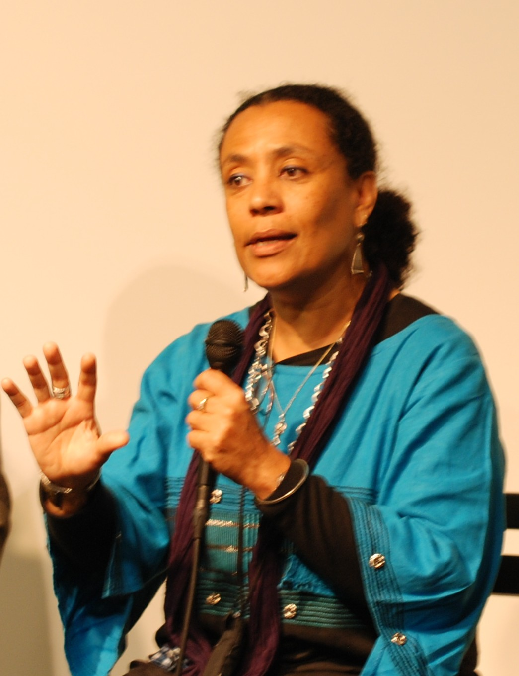 Ivory Coast writer Véronique Tadjo at the Göteborg Book Fair 2010